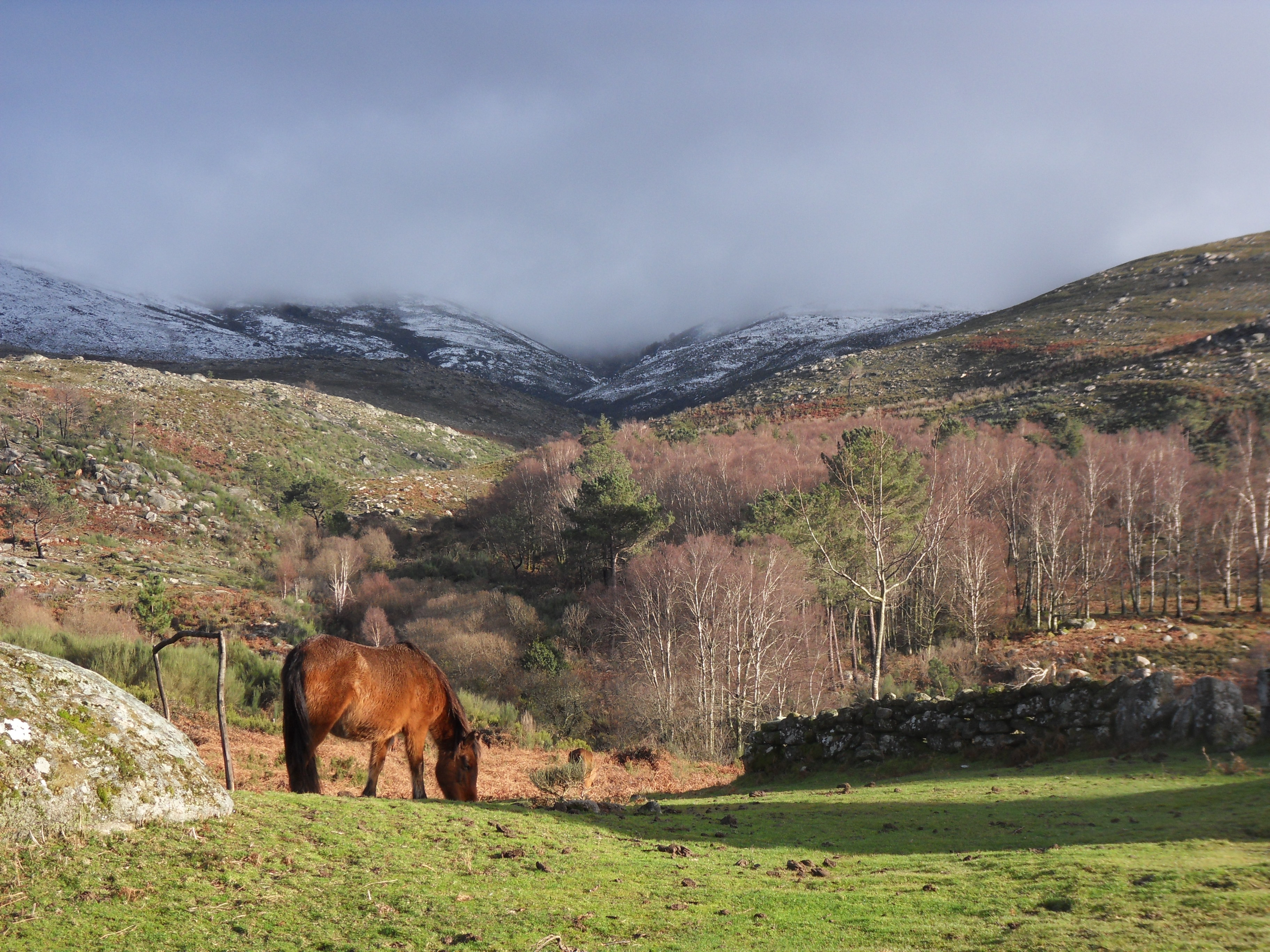 Garrano horse grazing in serra Amarela in Peneda Geres National Park in Portugal